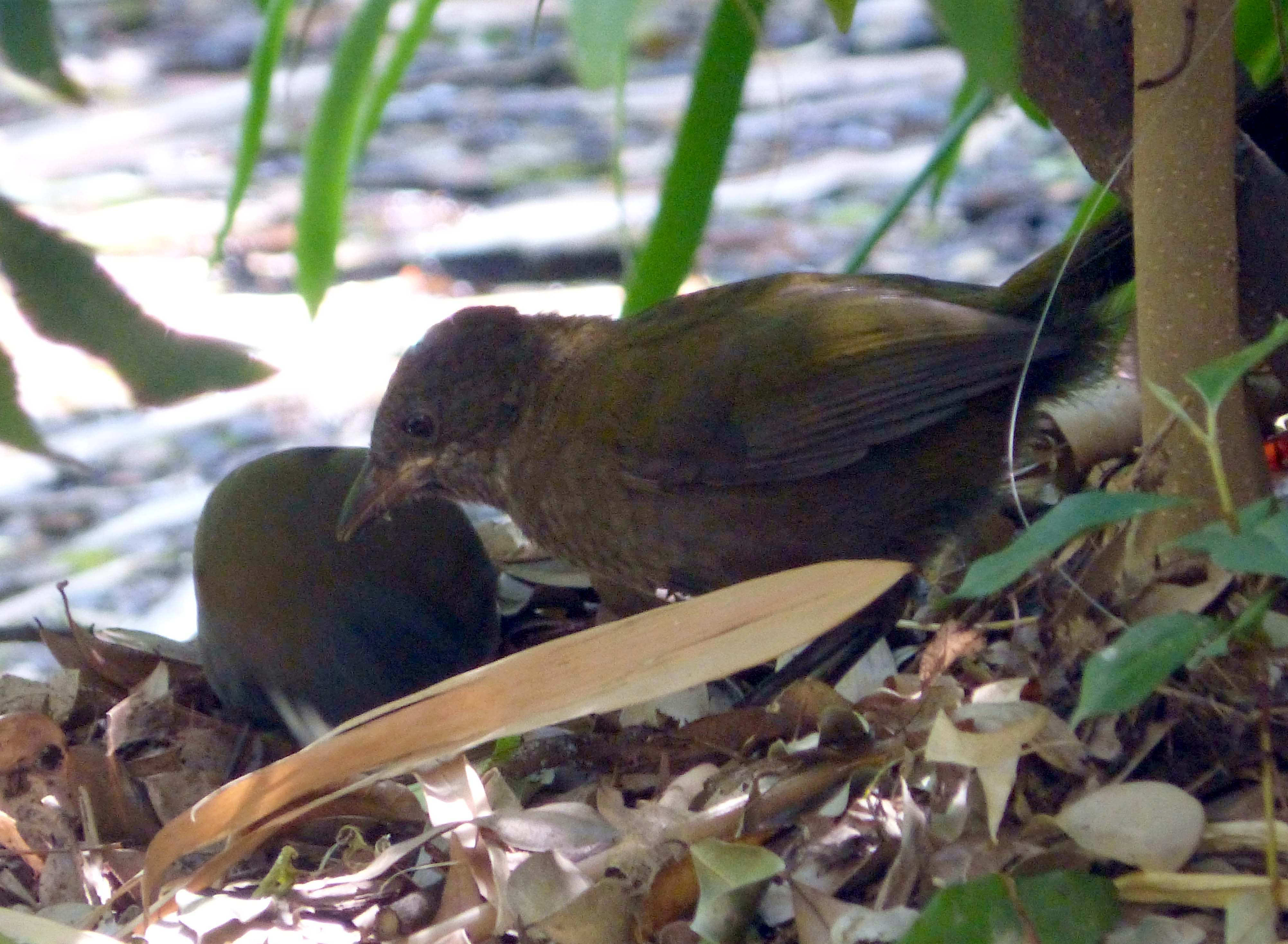 Mt. Coot-tha Botanical Garden. Brisbane. QLD